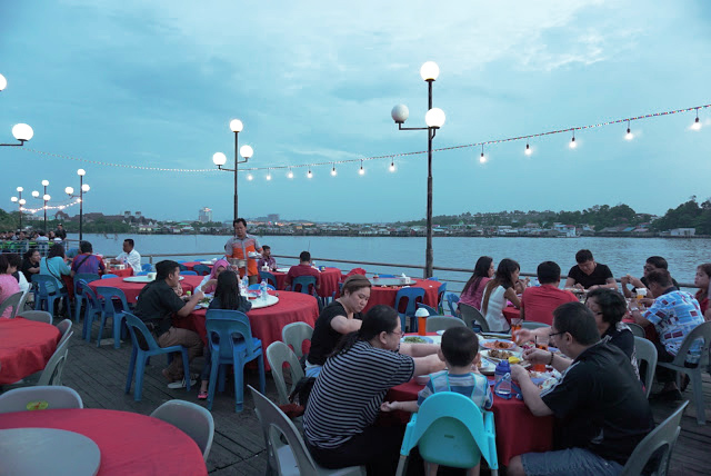 Many restaurants located along the sea, overlooking Singapore landscape in Harbour Bay Terminal.